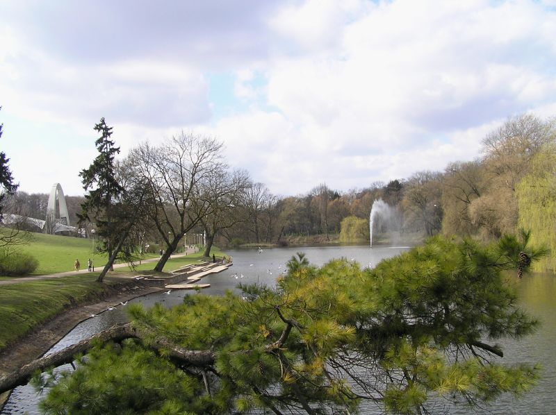 Rusałka Lake in Szczecin (in Kasprowicz Park).